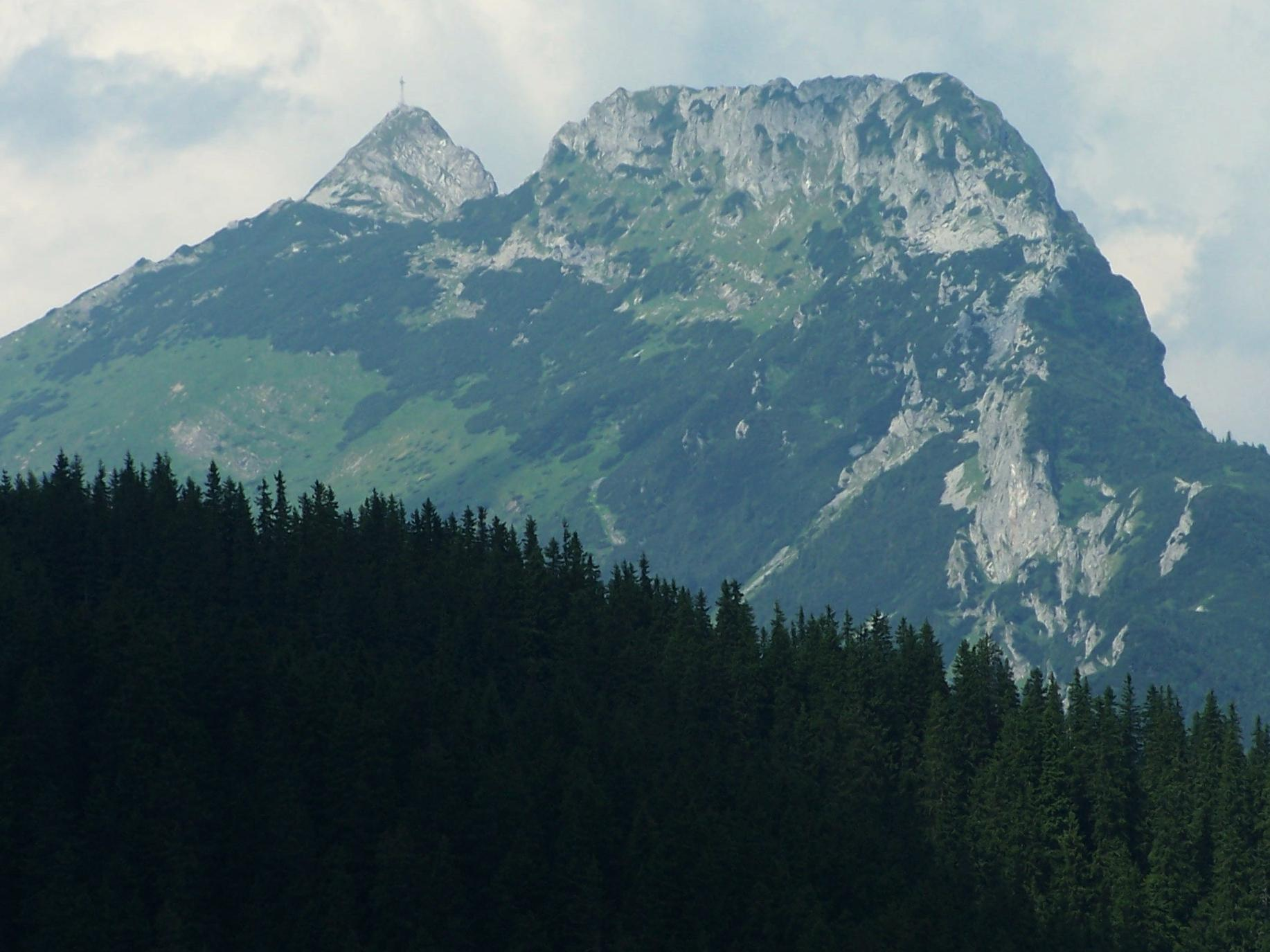 Giewont (Tatra Mountains)